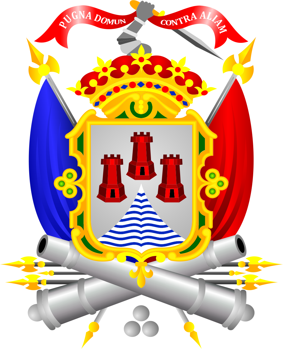 District of Puno - Puno Province - Region Puno